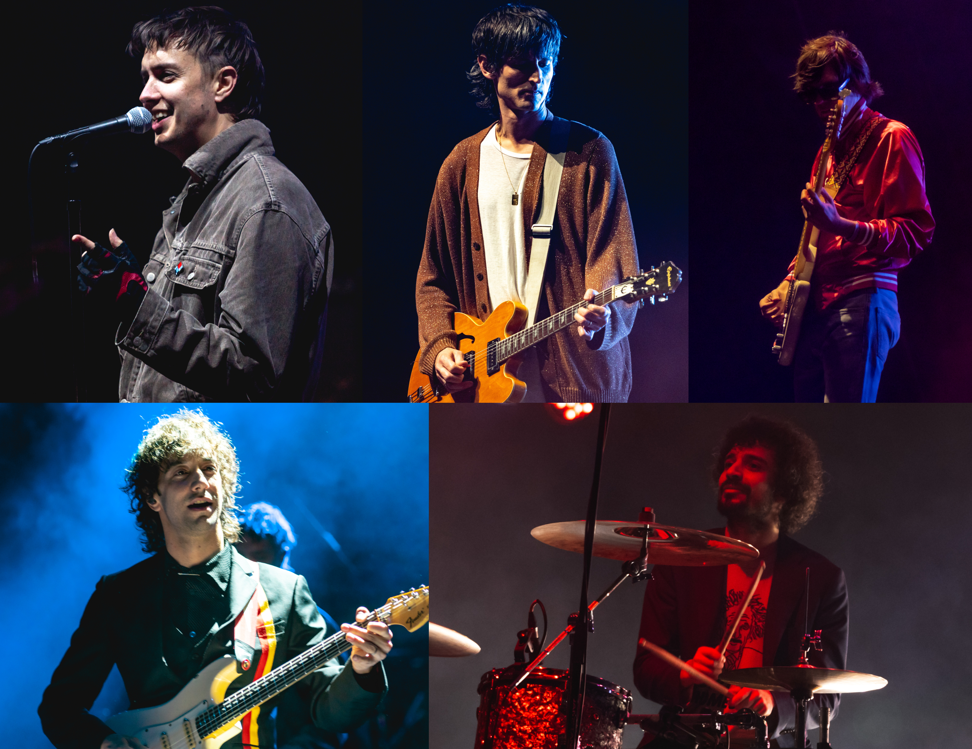 A collage of members of the Strokes performing live. Clockwise from top-left: Julian Casablancas, Nick Valensi, Nikolai Fraiture, Fabrizio Moretti, Albert Hammond Jr.